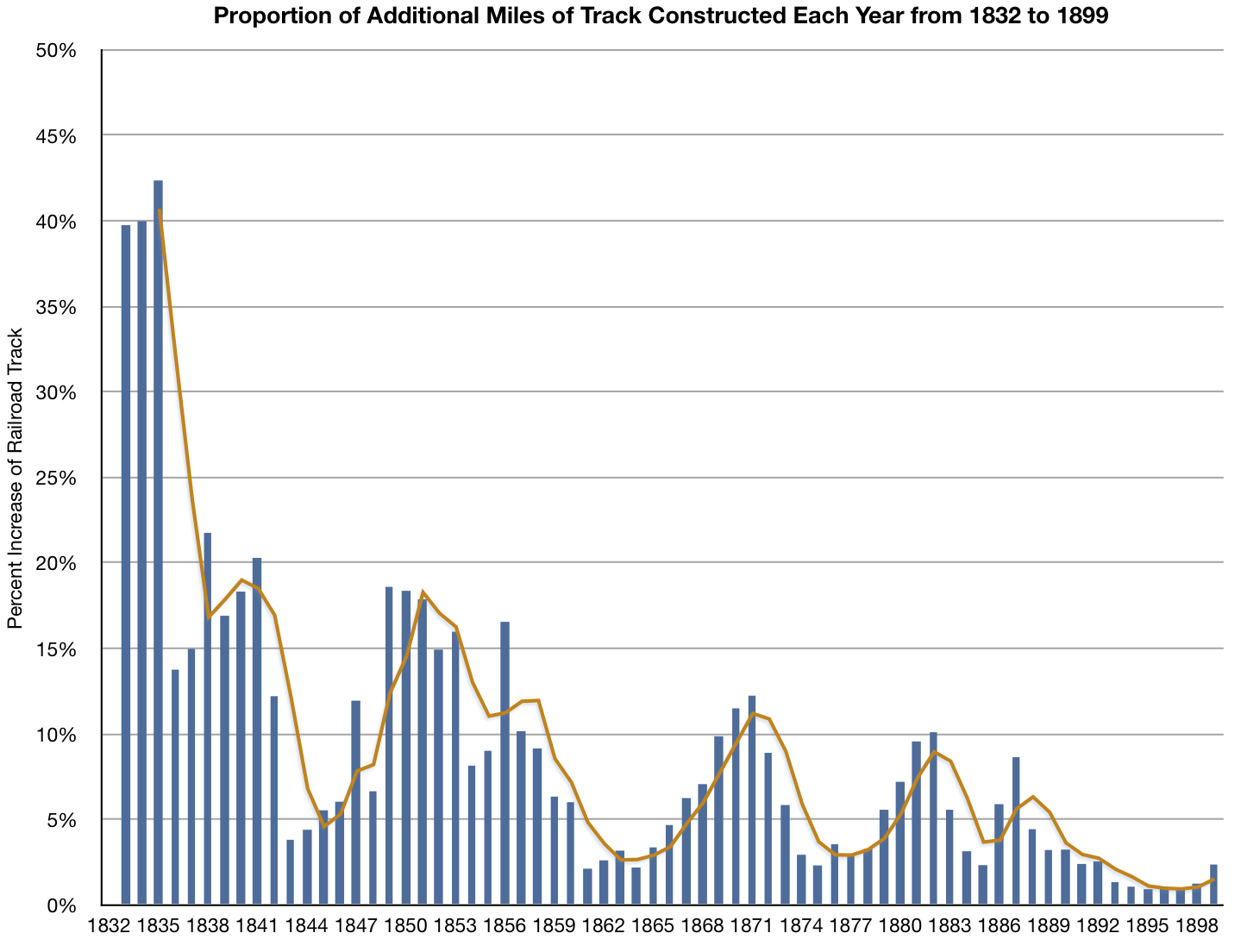 This chart shows the positive change in additional track milage represented as a proportion between the dates of 1832 and 1899, inclusive.